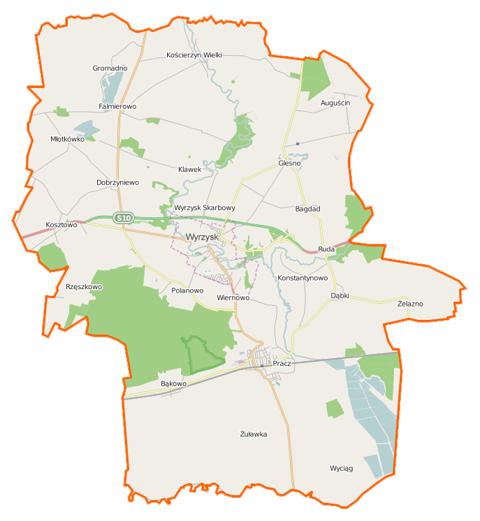 Map of Gmina Wyrzysk, Poland This map of Wyrzysk (gmina) was created from OpenStreetMap project data, collected by the community. This map may be incomplete, and may contain errors. Don't rely solely on it for navigation. Border coordinates53.227017.1637←↕→17.399453.0732